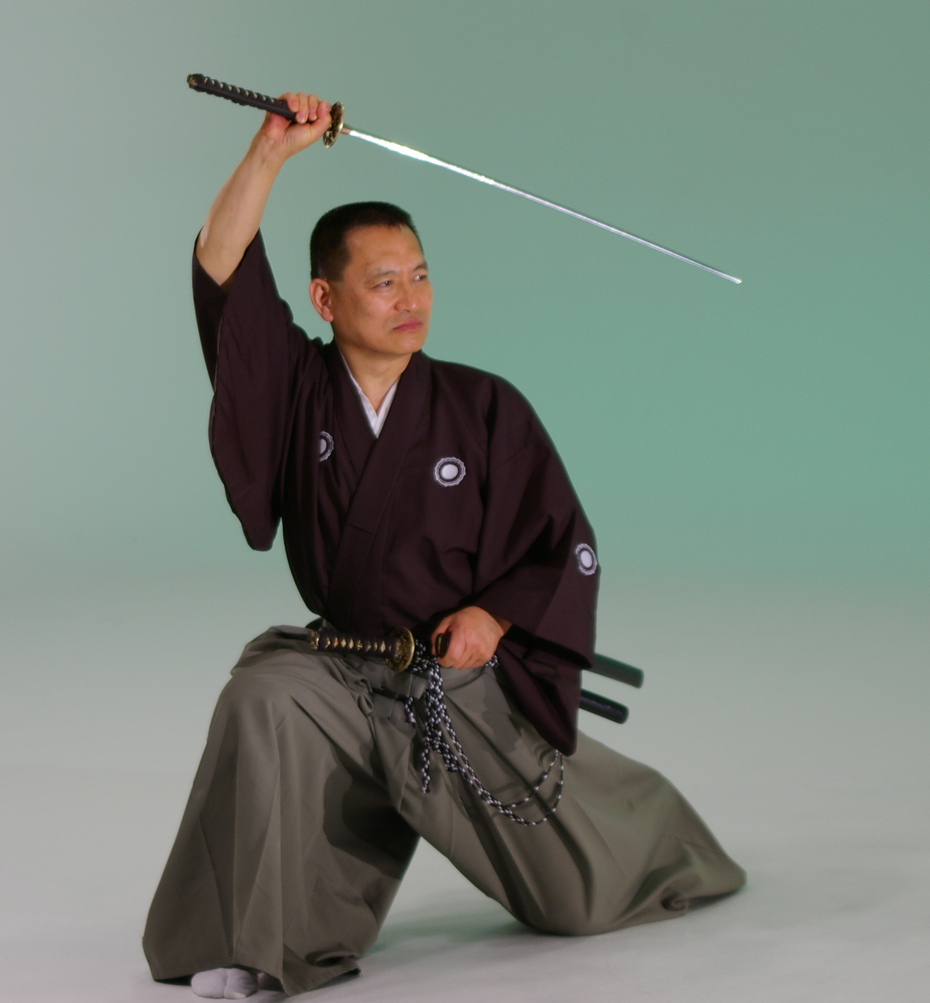 Niina Gyokudo, Soke of Mugairyu Iaihyodo, Meishi-ha, in the Tsukikagekanno stance